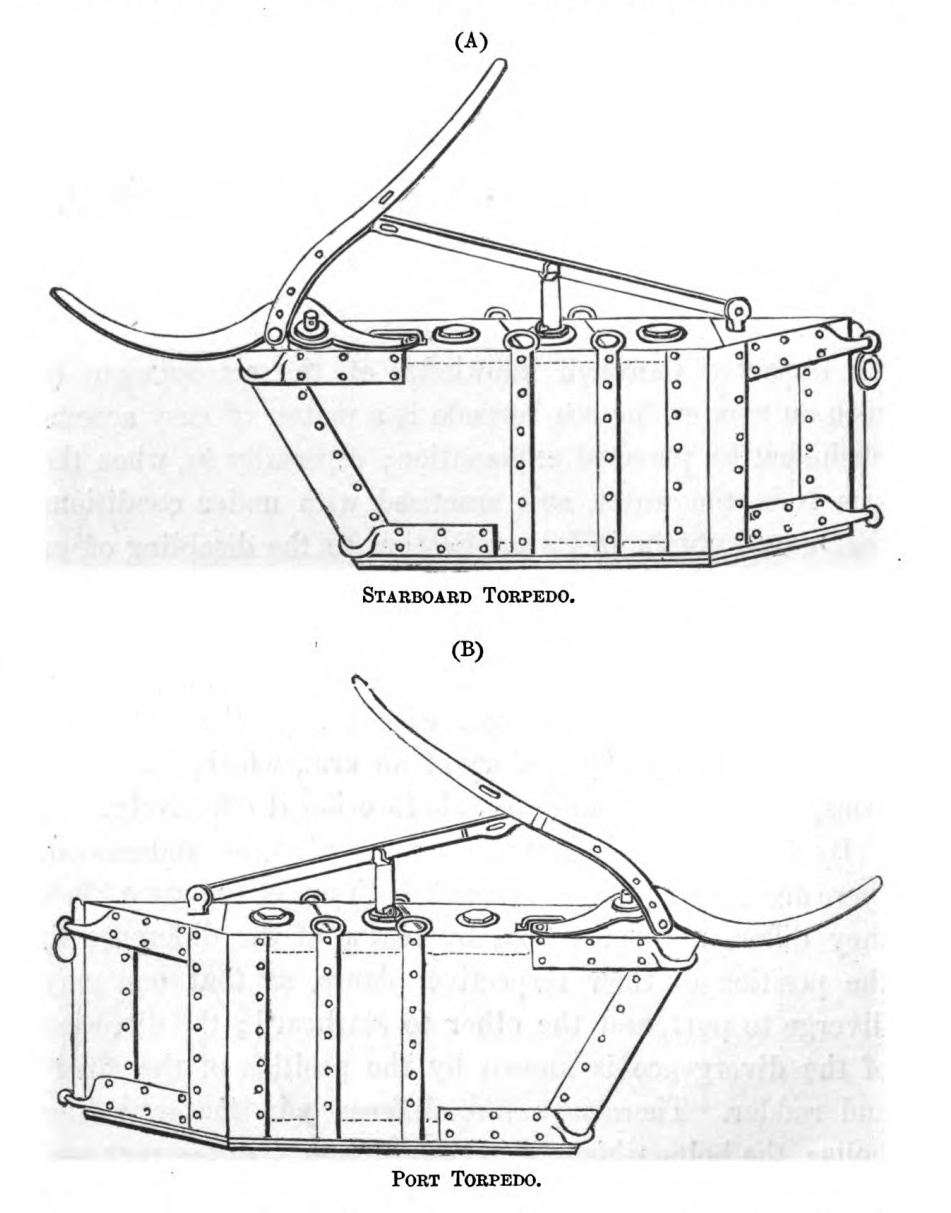 The Harvey towed torpedoes were used in pairs, and are illustrated here in Frederick Harvey's book, Instructions for the Management of Harvey's Sea Torpedo, from 1871, page 4. Clipped from Google scan.